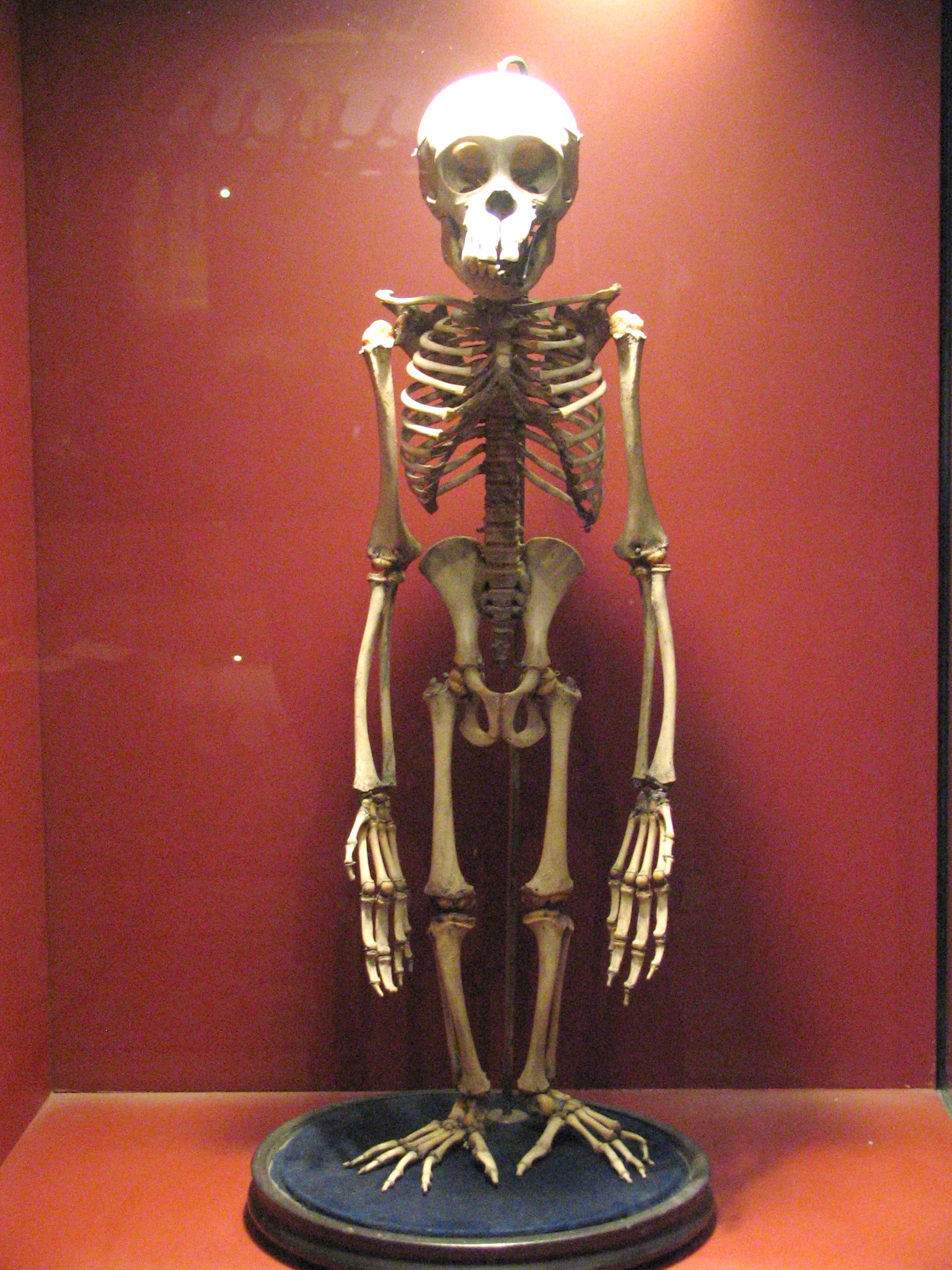 A juvenile chimpanzee dissected over 300 years ago by Edward Tyson. His writeup was an important landmark in the history of comparative anatomy.